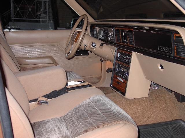 Ford LTD 84' Inside